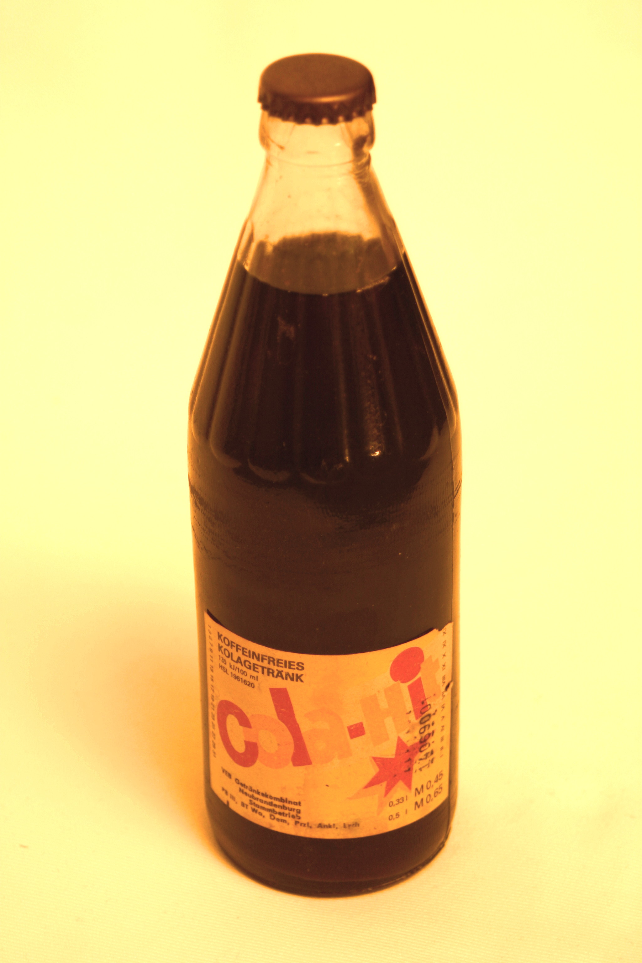 Cola-Hit-Bottle from GDR-production